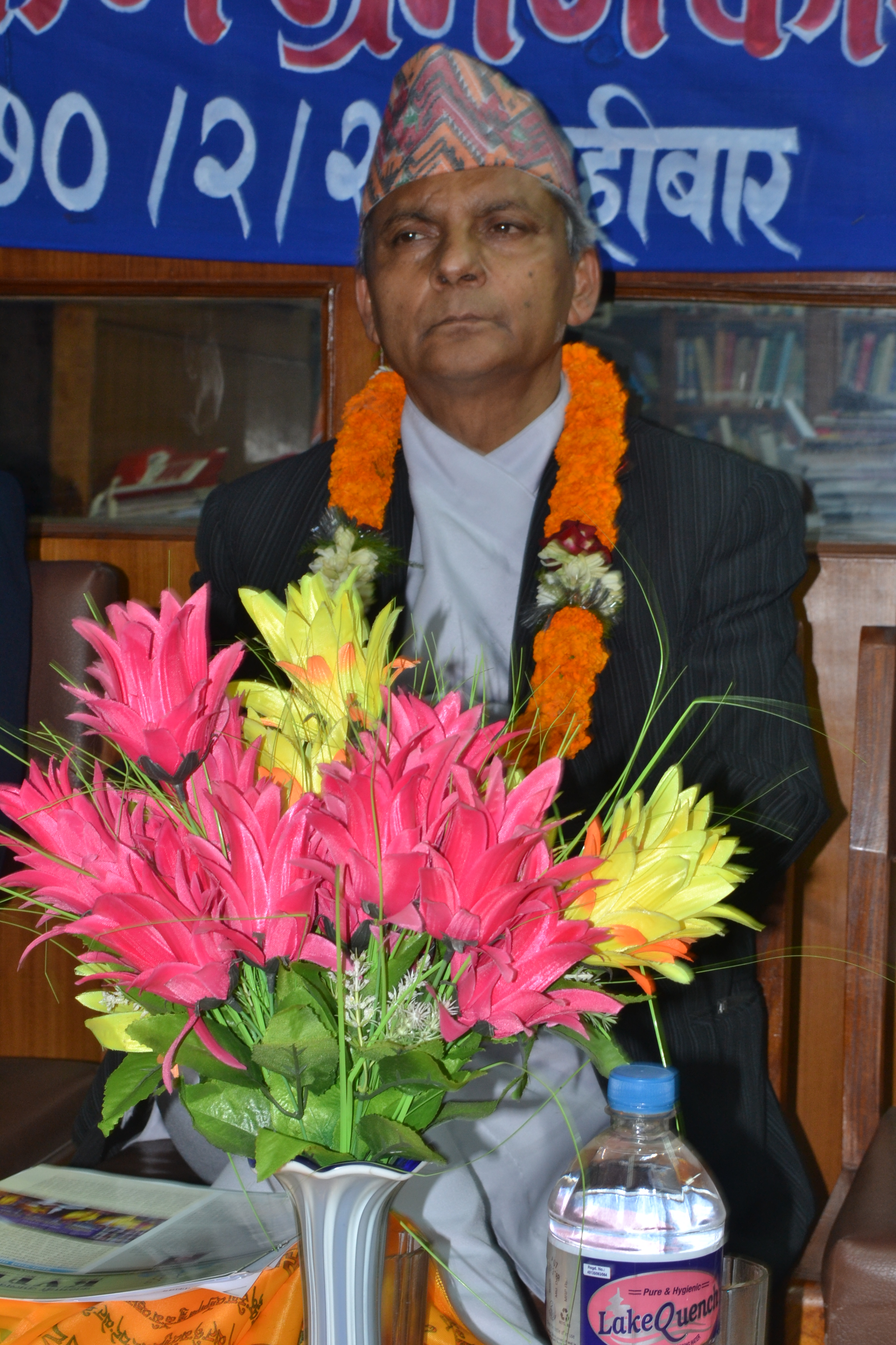 Prime Minister Khilraj Regmi at Bhirkutimandap library.